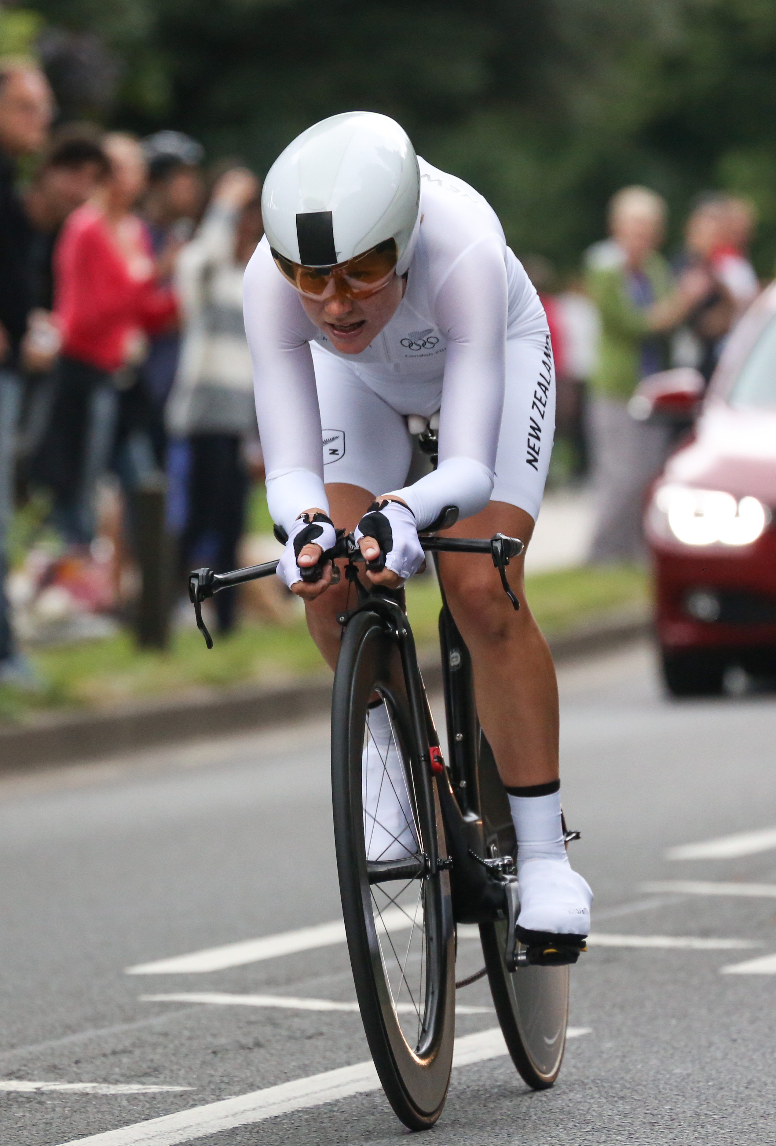 Linda Villumsen competing in the London 2012 Women's Olympic Time Trial.